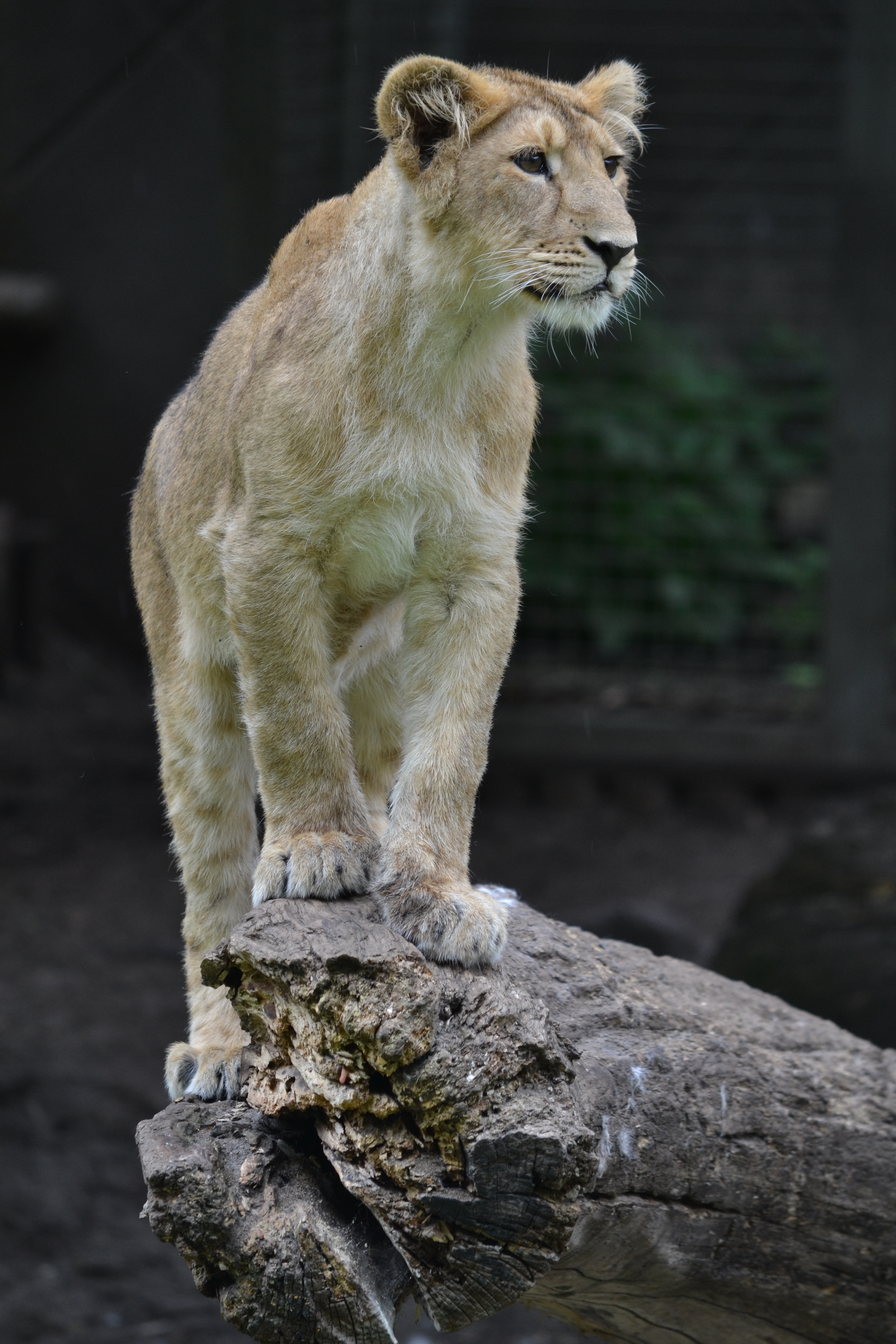 The Asiatic lion (Panthera leo persica) also known as the Indian lion, Persian lion and Eurasian lion,[2][3][4] is a subspecies of lion. The only place in the wild where this species is found is in the Gir Forest of Gujarat, India.[5][6] In 2010, the Gujarat government reported 411 Asiatic lions were sighted in the Gir forest; a rise of 52 over the last census of 2005.[7] The Asiatic lion is one of the five major big cats found in India, the others being the Bengal tiger, the Indian leopard, the snow leopard and clouded leopard.[8] The Asiatic lions once ranged from the Mediterranean to the northeastern parts of the Indian Subcontinent, but excessive hunting, water pollution and decline in natural prey reduced their habitat.[9] Historically, Asiatic lions were classified into three kinds – Bengal, Arabian and Persian lions.[10] Asiatic lions are smaller and lighter than their African counterparts, but are equally aggressive.